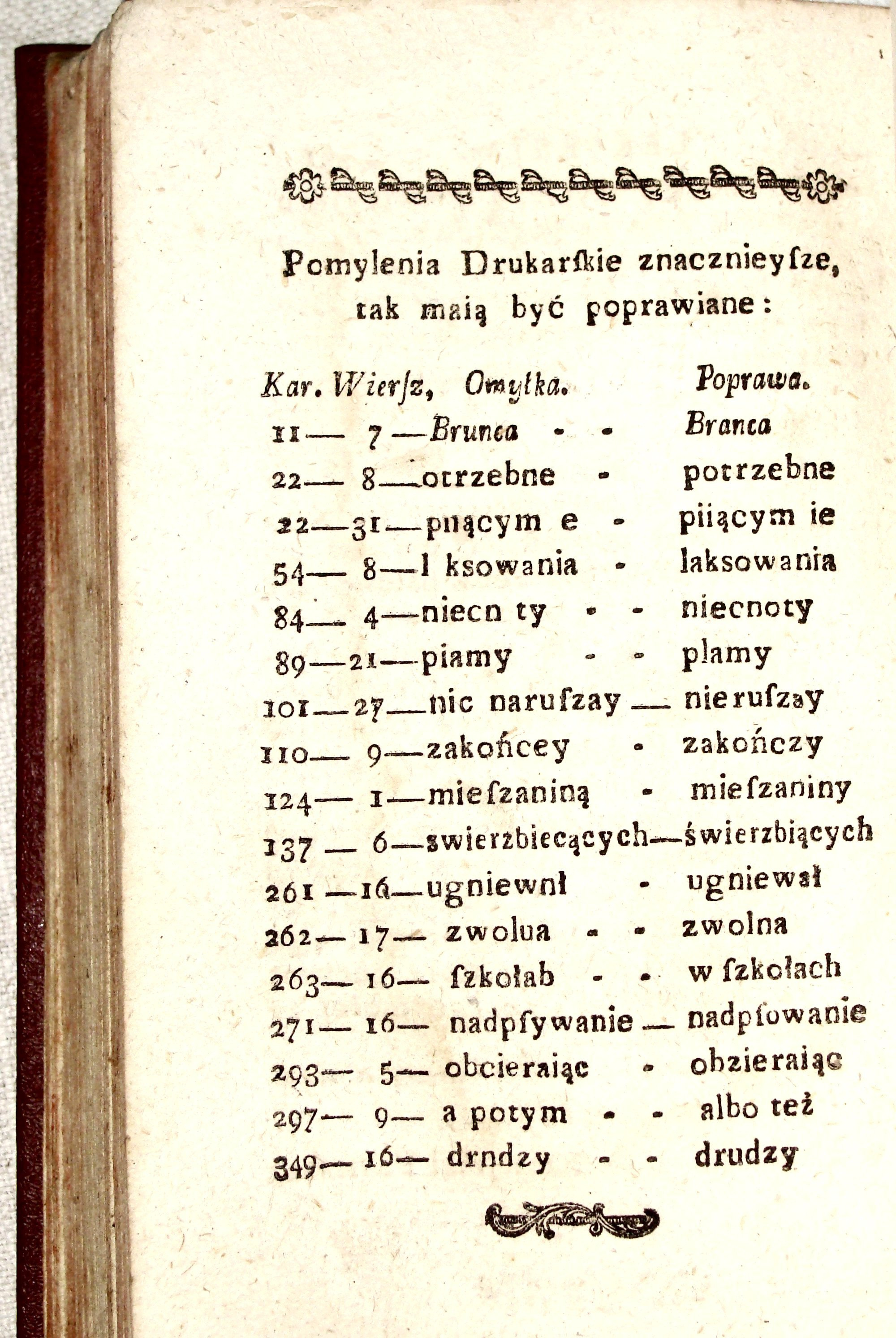 Errata